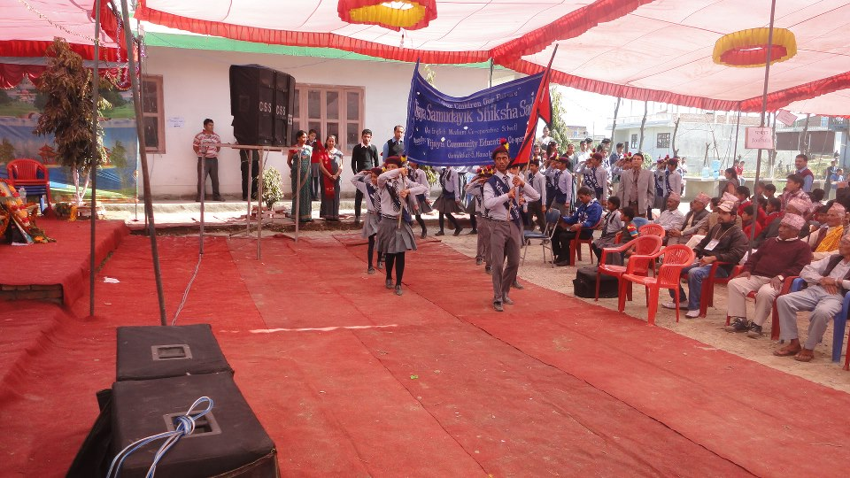 March pass by students in Parents Day Programme of Vsss